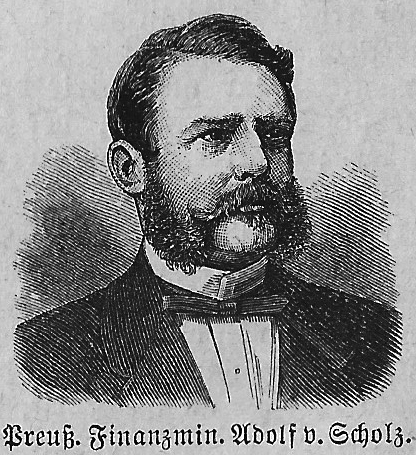 German minister of finance